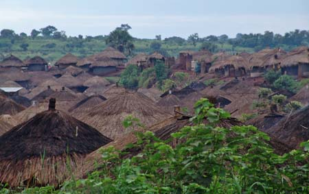 Original caption states "Overlooking a camp for internally displaced persons." Original name of file indicates that this is Palenga camp for internally displaced persons located in the Northern Region of Uganda.